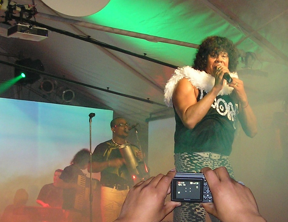 Juan Carlos "La Mona" Jiménez singing in La Falda, Córdoba (Hotel of the Health Workers Union)